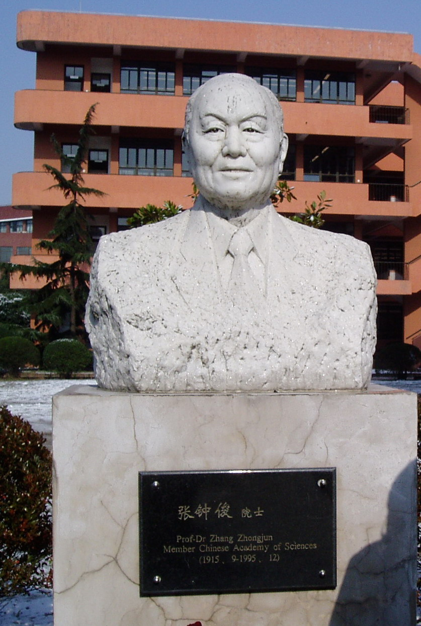 the Sculpture of Prof.Dr.Zhang in Minhang campus,Shanghai Jiao Tong University in 2004.